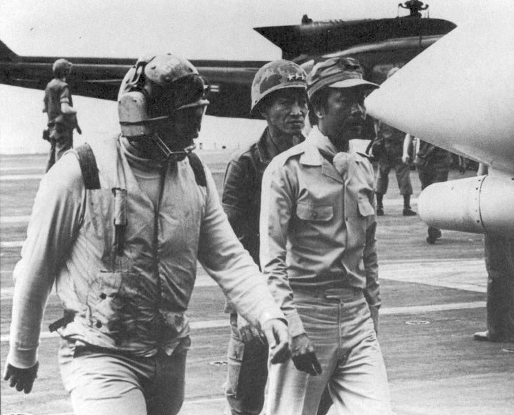 Air Vice Marshal Nguyễn Cao Kỳ arrives on the USS Midway during Operation Frequent Wind